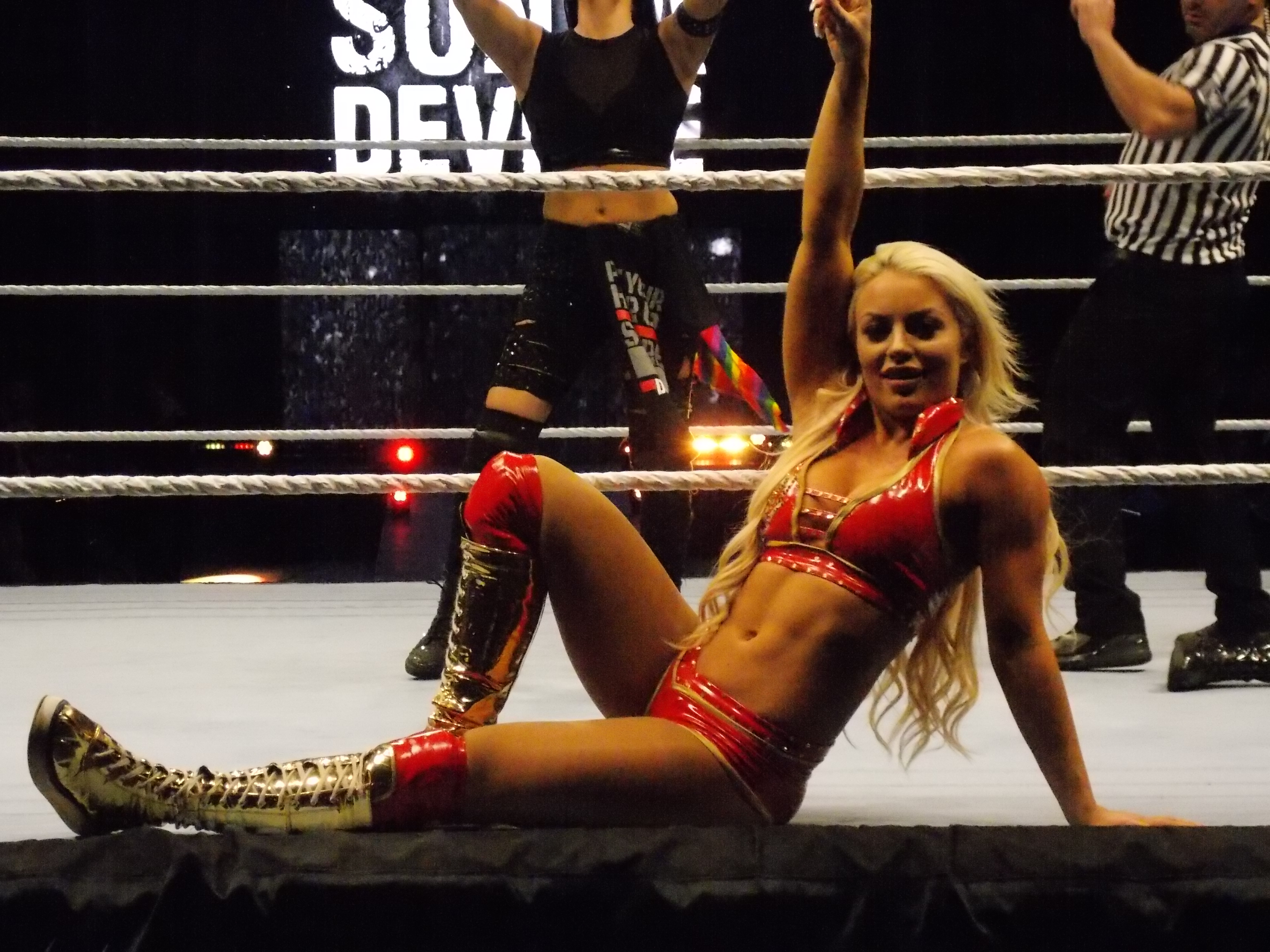 Mandy Rose at a WWE Live Event House Show in Omaha, Nebraska, USA on Sunday, August 18, 2019